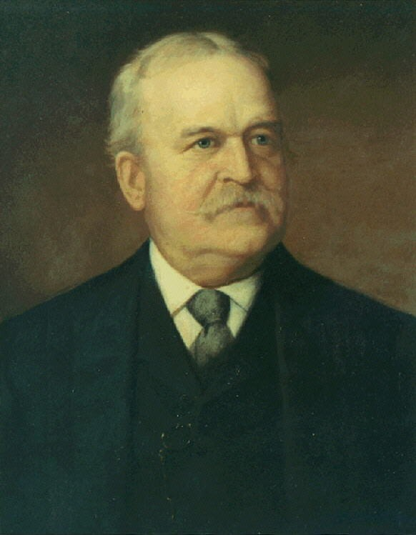 John D. Long (1838-1915), 33rd Secretary of the Navy, 1897-1902